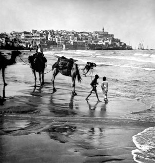 33635 Jaffa , the Joppa of Bible times, Palestine, by Keystone View Company